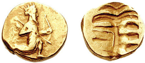 PERSIA. Alexandrine Empire. Circa 331-288-7 BC. AV Double Daric (16.65 g). Babylon mint. Struck circa 315-300-298 BC